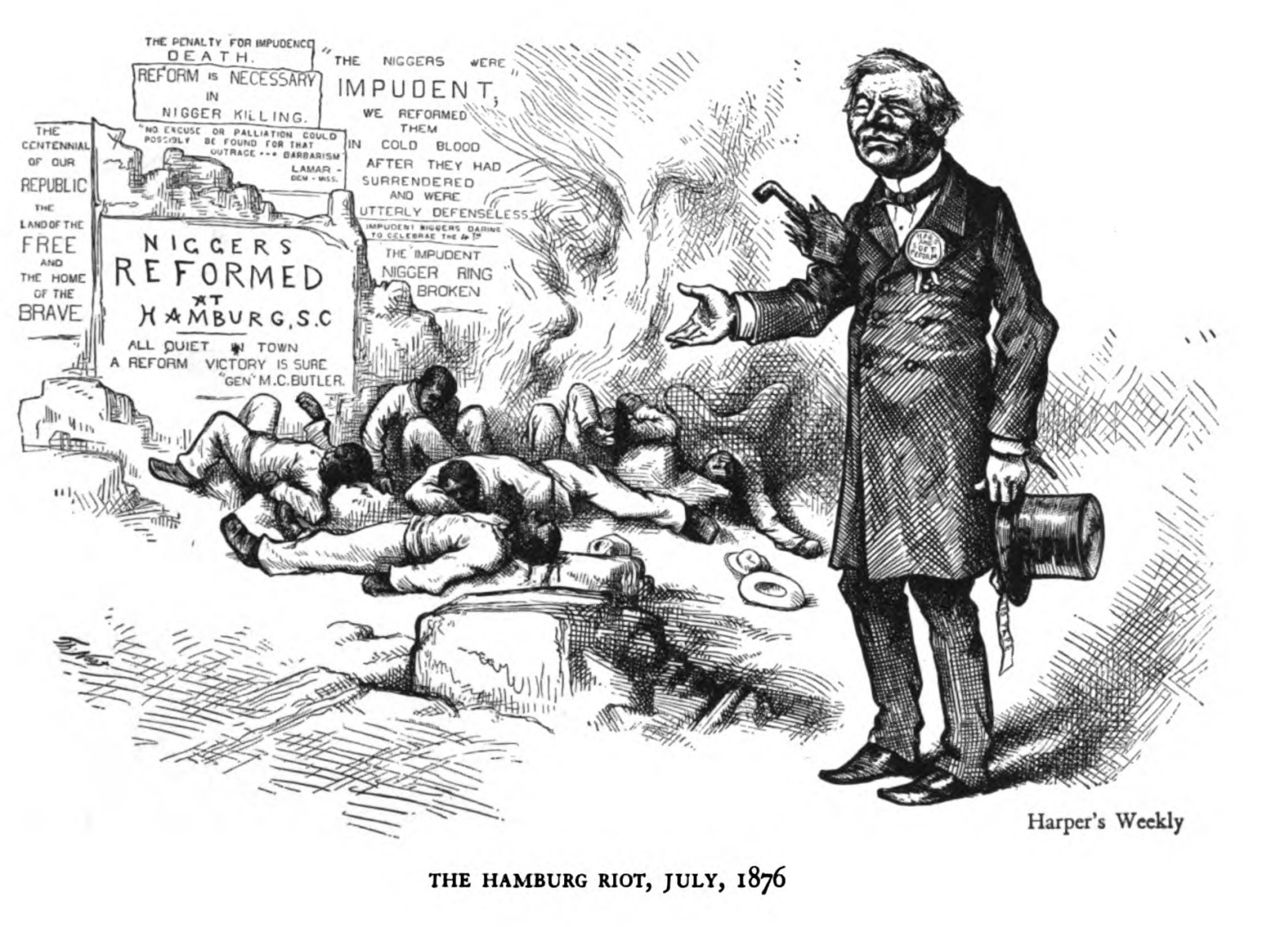 Cartoon decrying the Hamburg massacre of July 1876